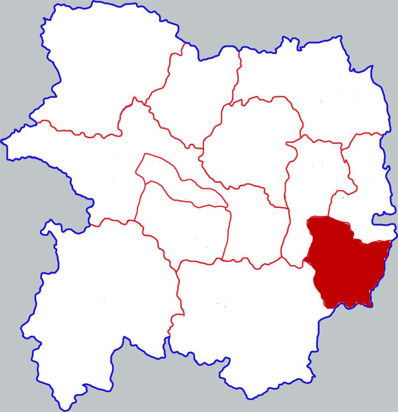 Location of Mei county in Baoji city, China